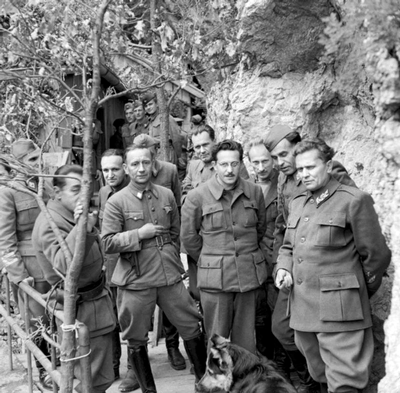 Marshal Tito stands with his Cabinet Ministers and Supreme Staff at his mountain headquarters in Yugoslavia on 14 May 1944. From left to right in the front row are Dr Vladimir Ribnikar (Minister of Information), Colonel Filipovich, Kdvard Kardelt and Marshal Tito. From left to right in the back row are Major General Arca Yovanovich (Chief of Staff), Radonja (Tito's secretary), Cholakovich (Secretary of the National Anti-Fascist Council), Kocbek (Minister of Education) and Lieutenant General Sreten Zujevich. Tito's dog, Tiger, can also be seen in the foreground.